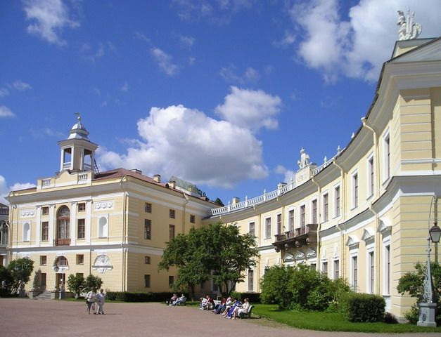 Common view. Pavlovsk Palace